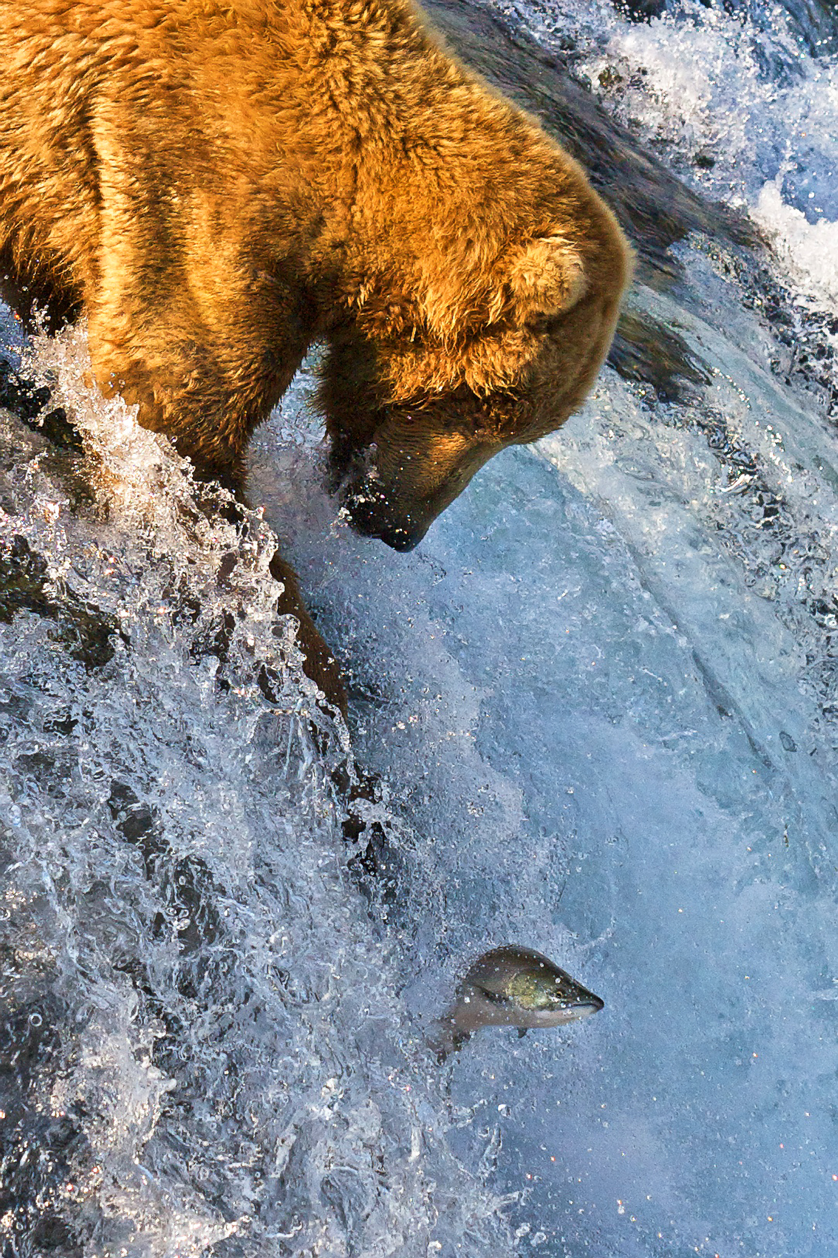 Grizzly Bear (Ursus arctos horribilis) catching salmon at Brooks Falls in Katmai National Park, Alaska.